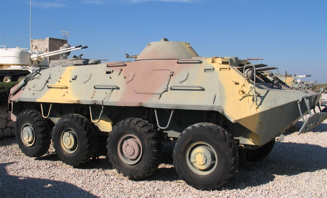 Description: Soviet BTR-60 APC in Yad la-Shiryon Museum, Israel. 2005. Source: Photo by me, User:Bukvoed.